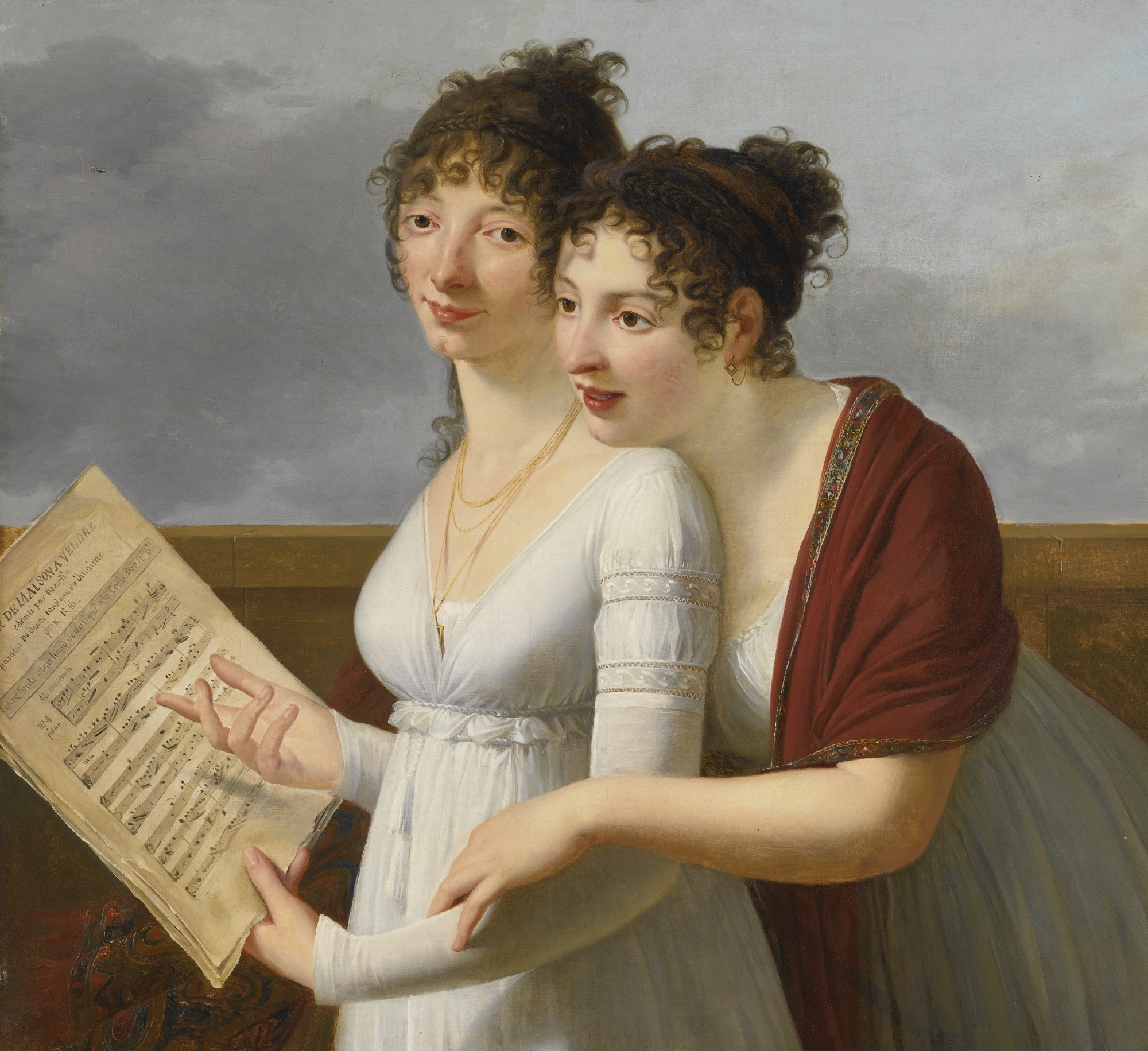 Portrait of two elegantly dressed ladies (both in white dresses, one in a red shawl), with sheet music.